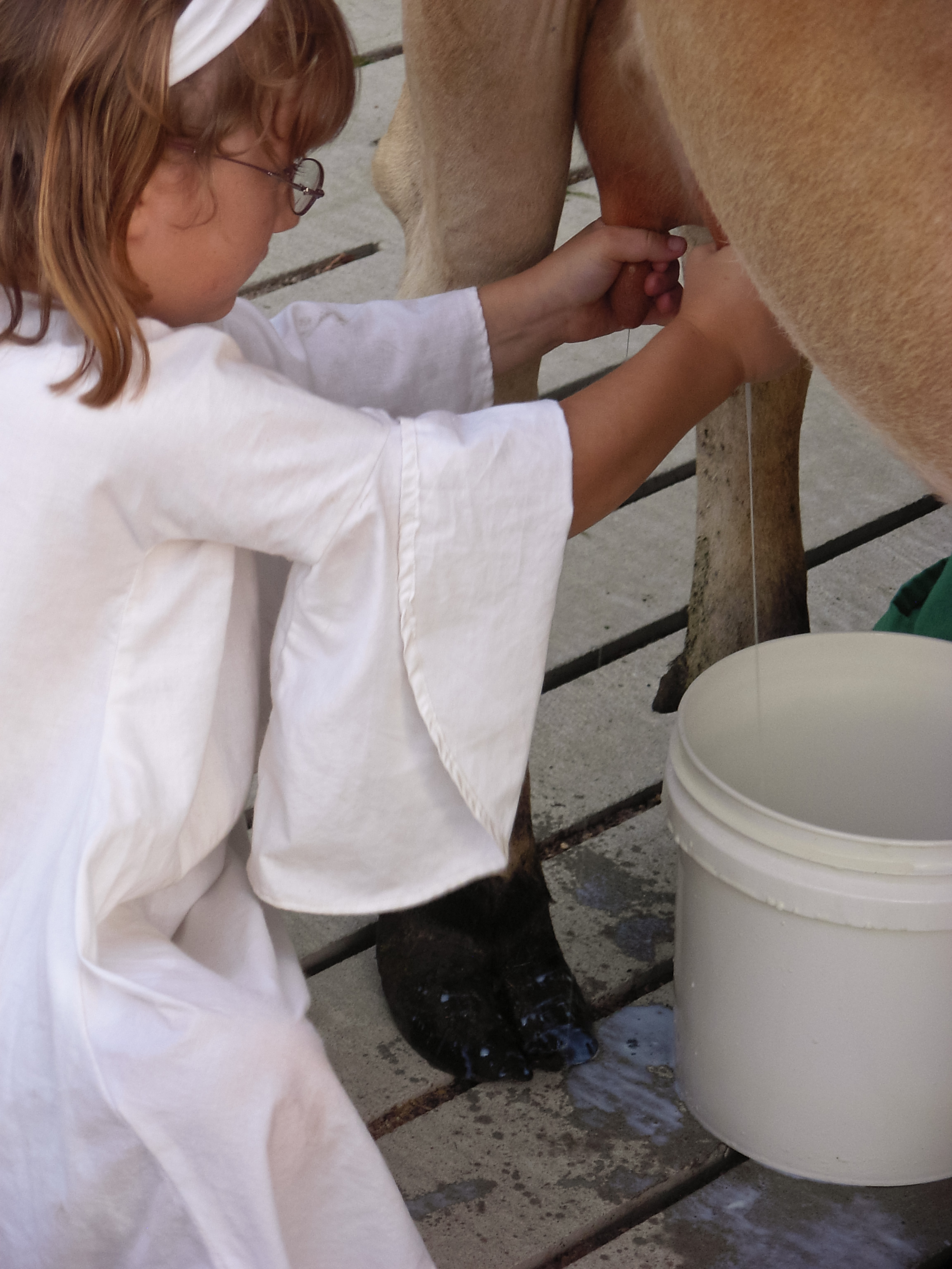 Girl in white milking a cow by hand into a plastic pail near Mankato, Minnesota.